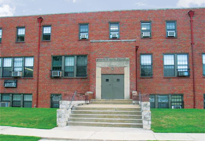 This is an image of site one